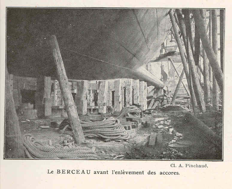 Subject: Ships--Launching Tag: Vessels